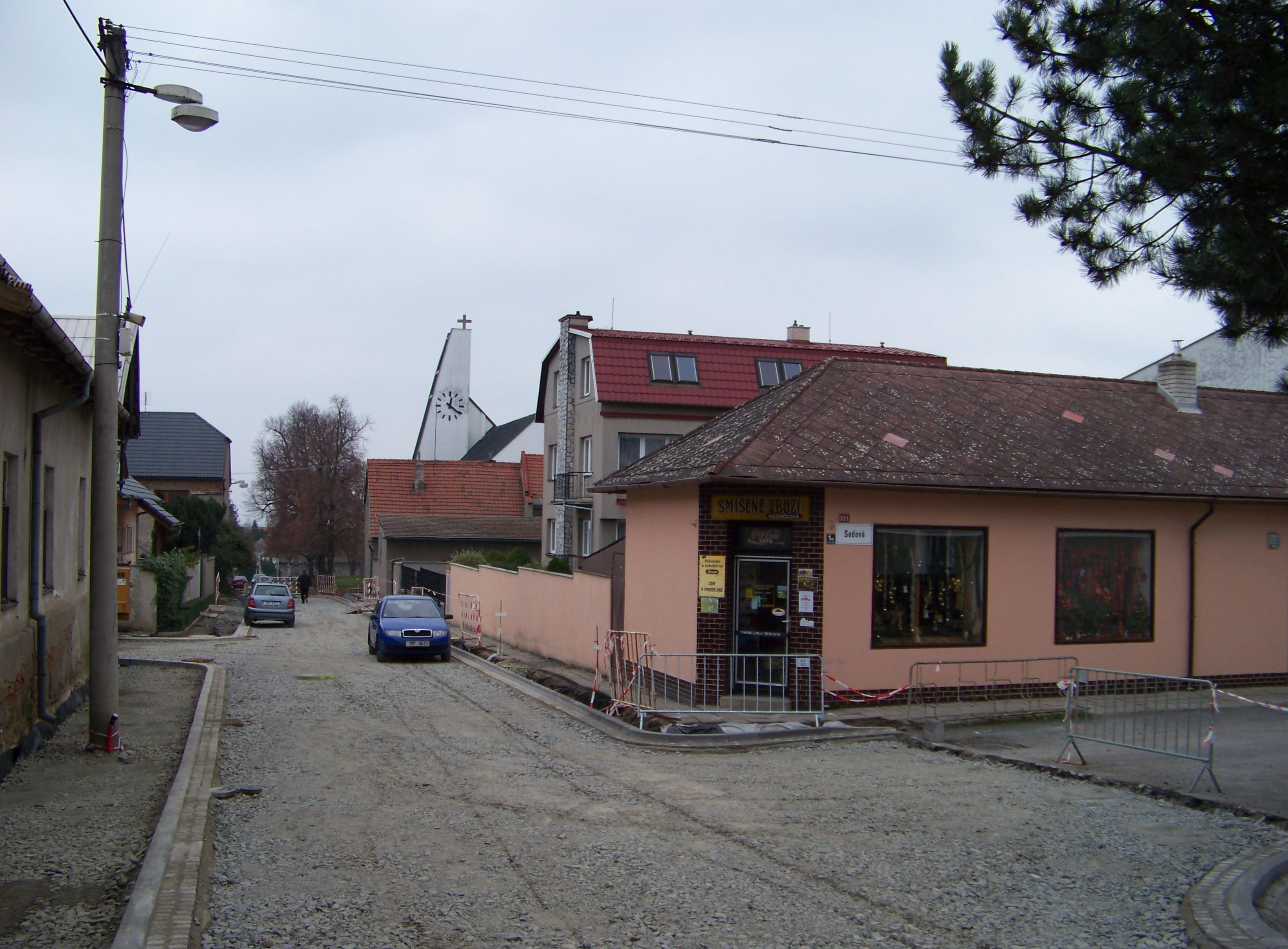 Křelov-Břuchotín-Křelov, Olomouc District, Olomouc Region, Czech Republic. Sadová 331/1a, Sadová 282/1, a view to Lipové náměstí.